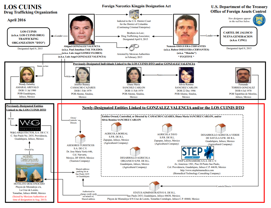 Chart of Los Cuinis' members and businesses in April 2016.